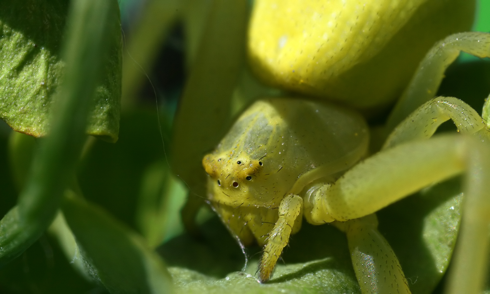 A Misumena vatia hiding in the shadow.